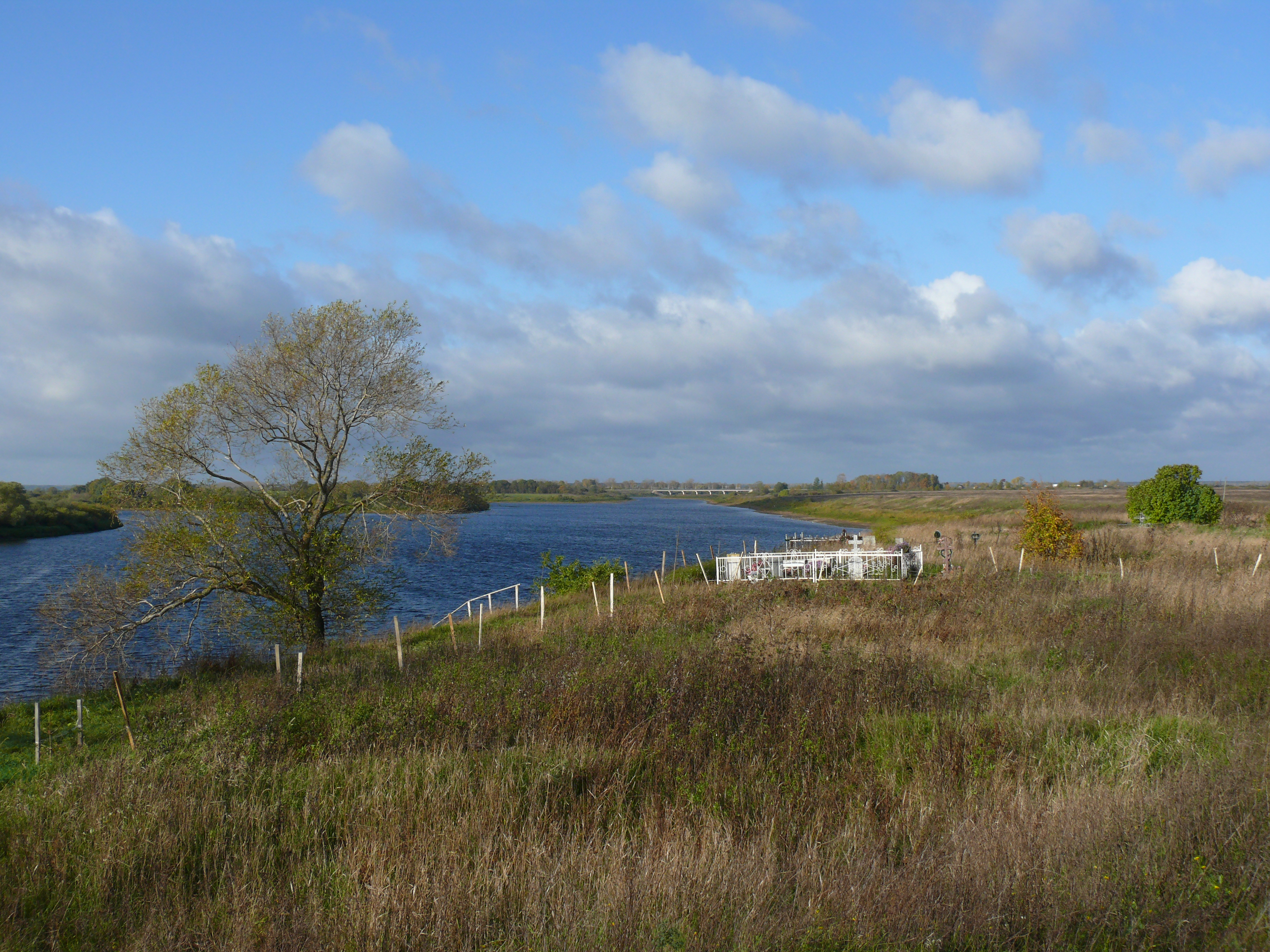 Cemetery in Bor village, Shimsky District, Novgorod oblast